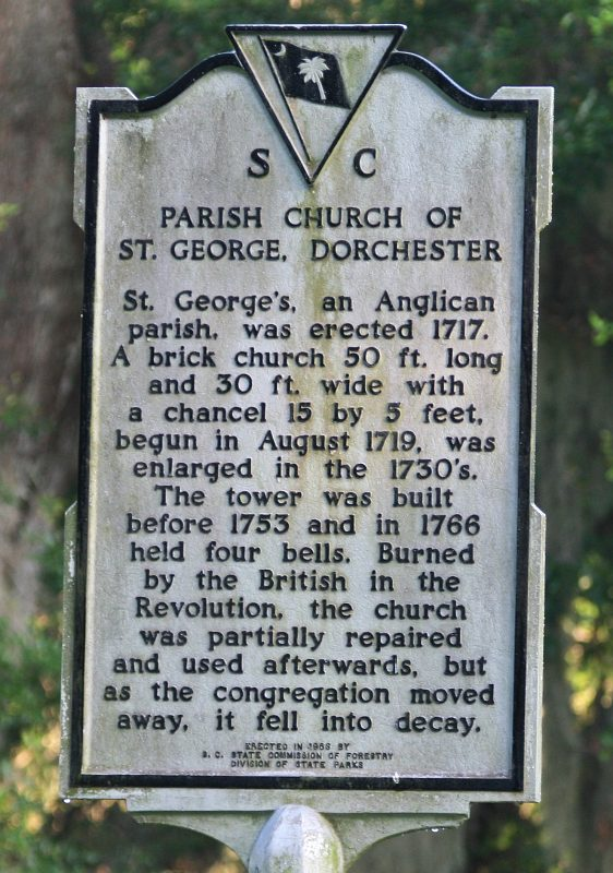 Old Dorchester The standard state historical place roadside informative sign, regarding the ruins of the church.